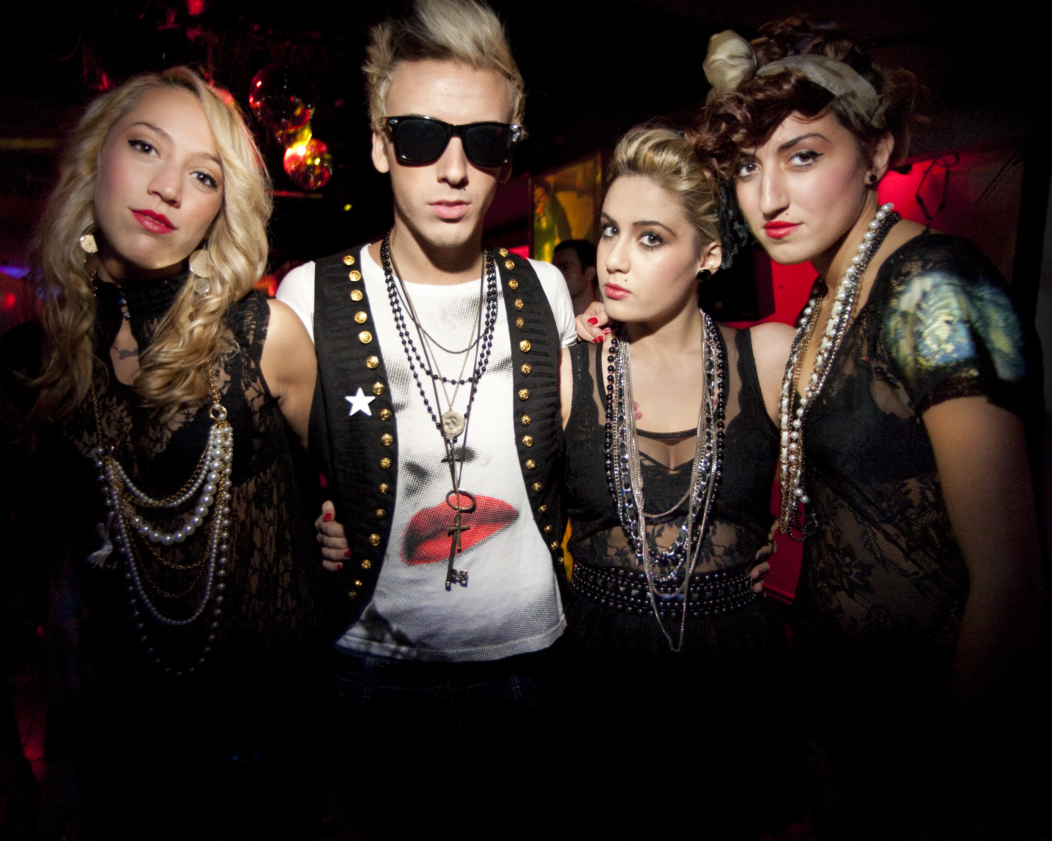 A thematic-Madonna party